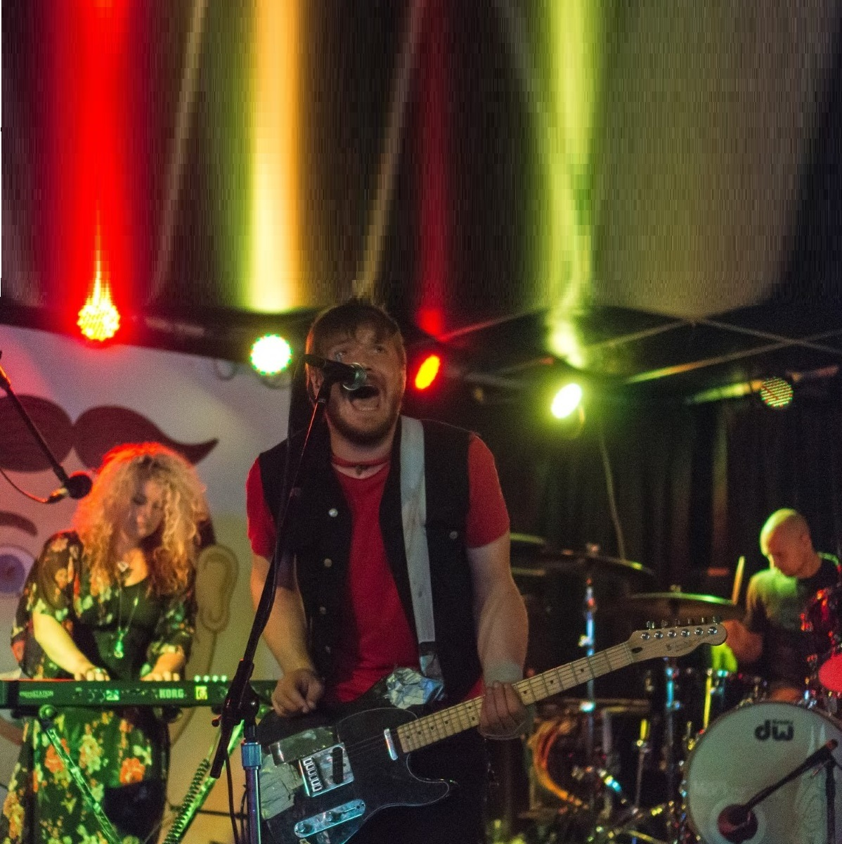 Those Mockingbirds at Wonder Bar in 2017